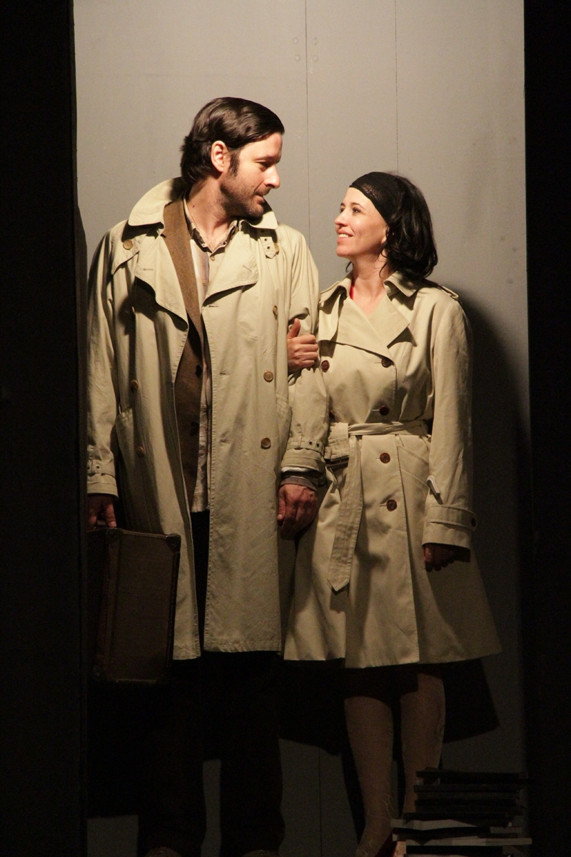 Detail from drama Mali bračni zločini, National Theatre from Belgrade